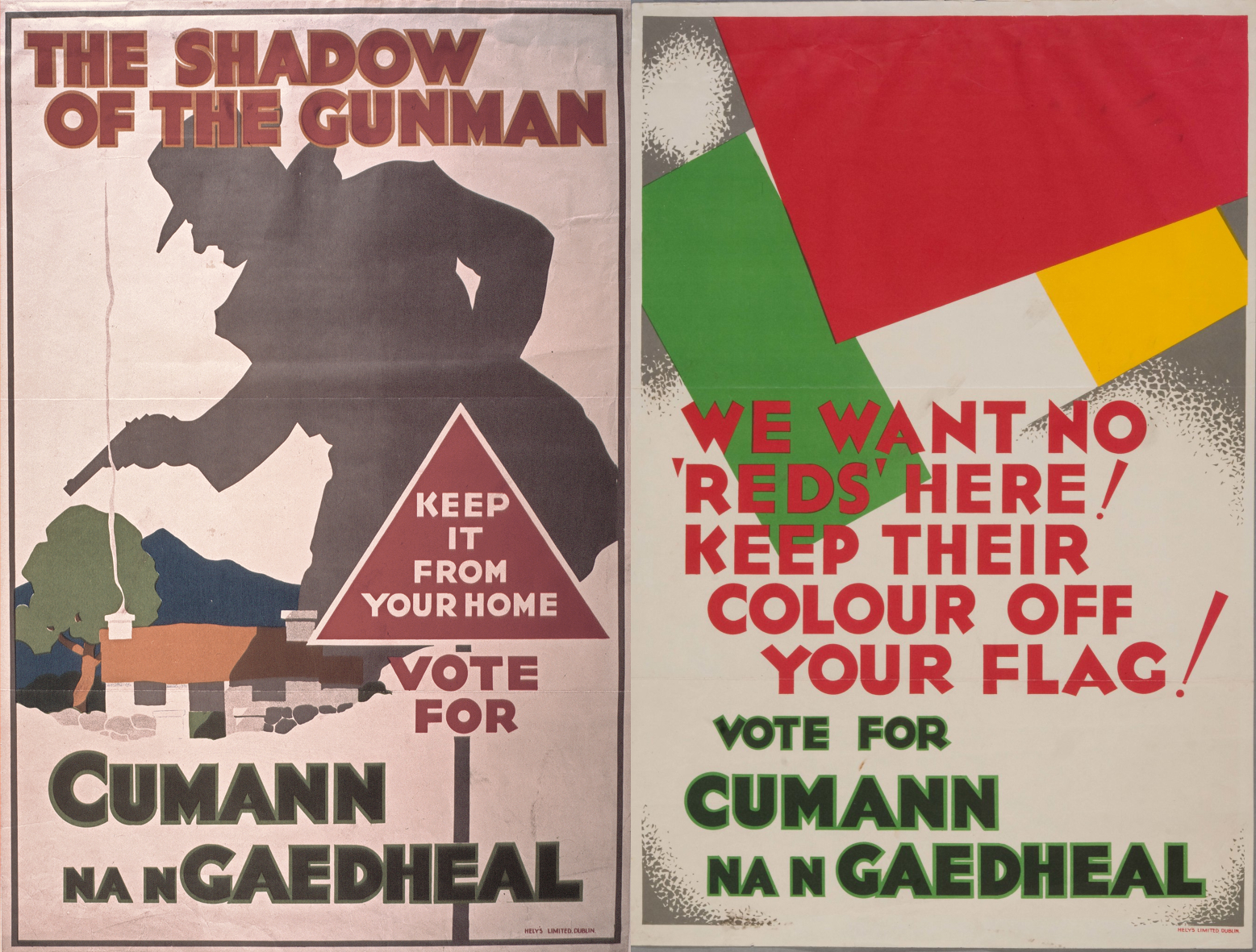 Two election posters by Cumann na nGaedhael from 1932